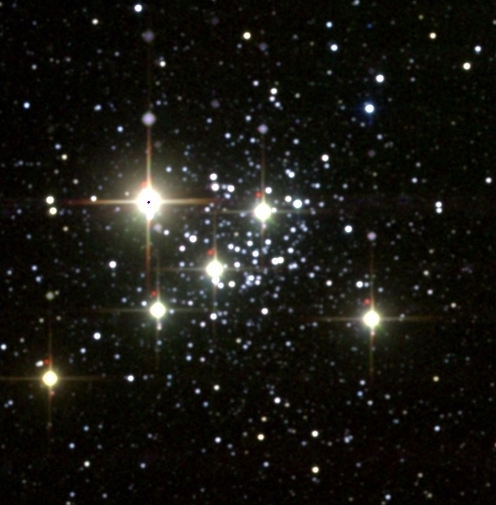 The open cluster NGC 7419 contains five red supergiants which are prominent at infrared wavelengths.